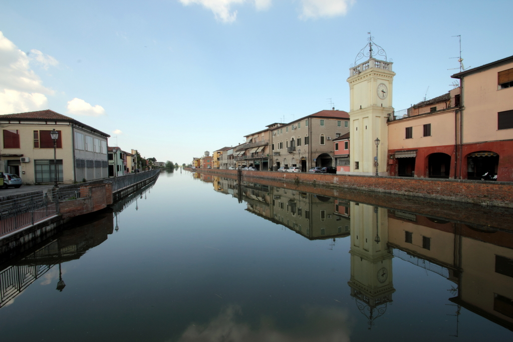 Loreo - landscape